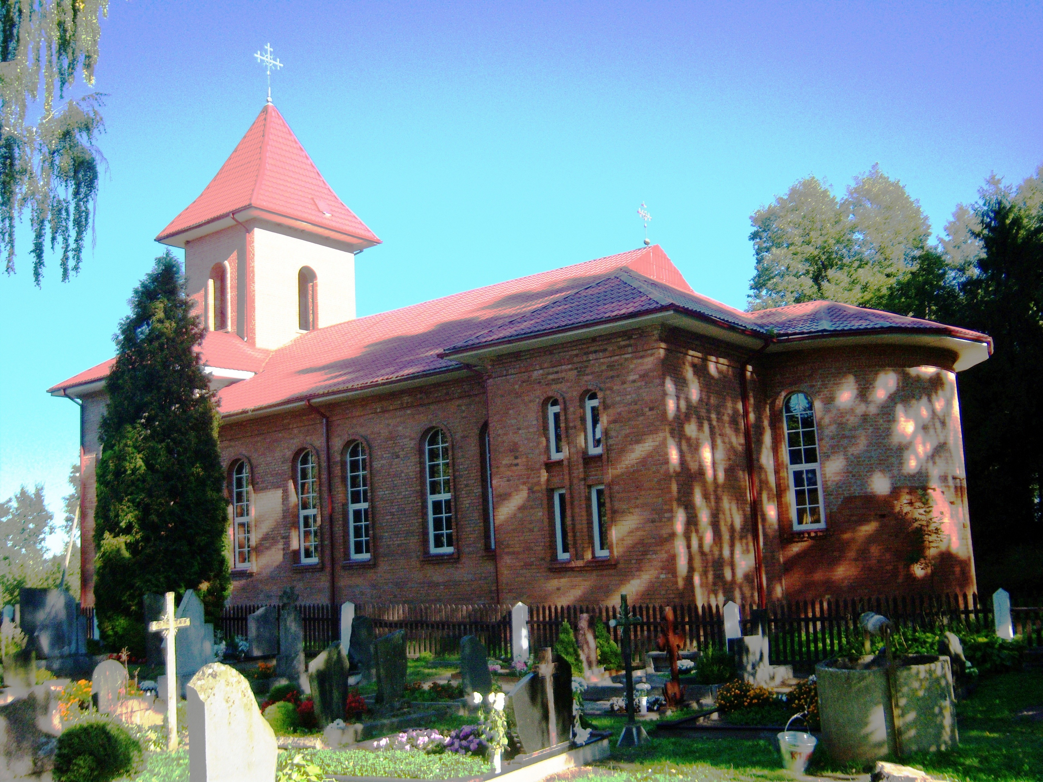 Catholic church in Sutkai (new), Šakiai District, Lithuania